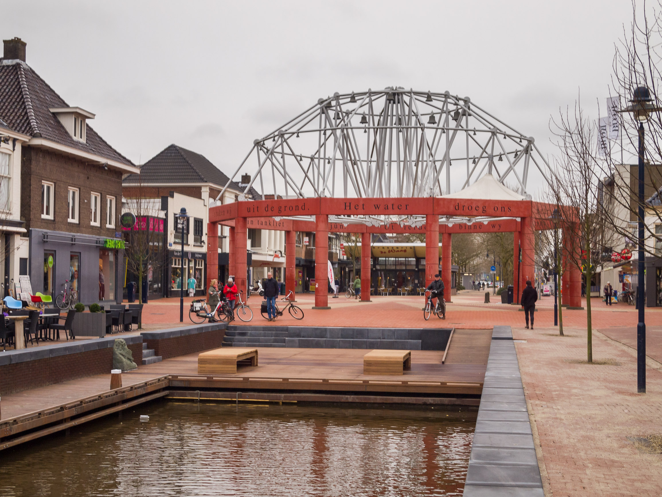 Het Carillon in Drachten aan het einde van de nieuwe Drachtster vaart